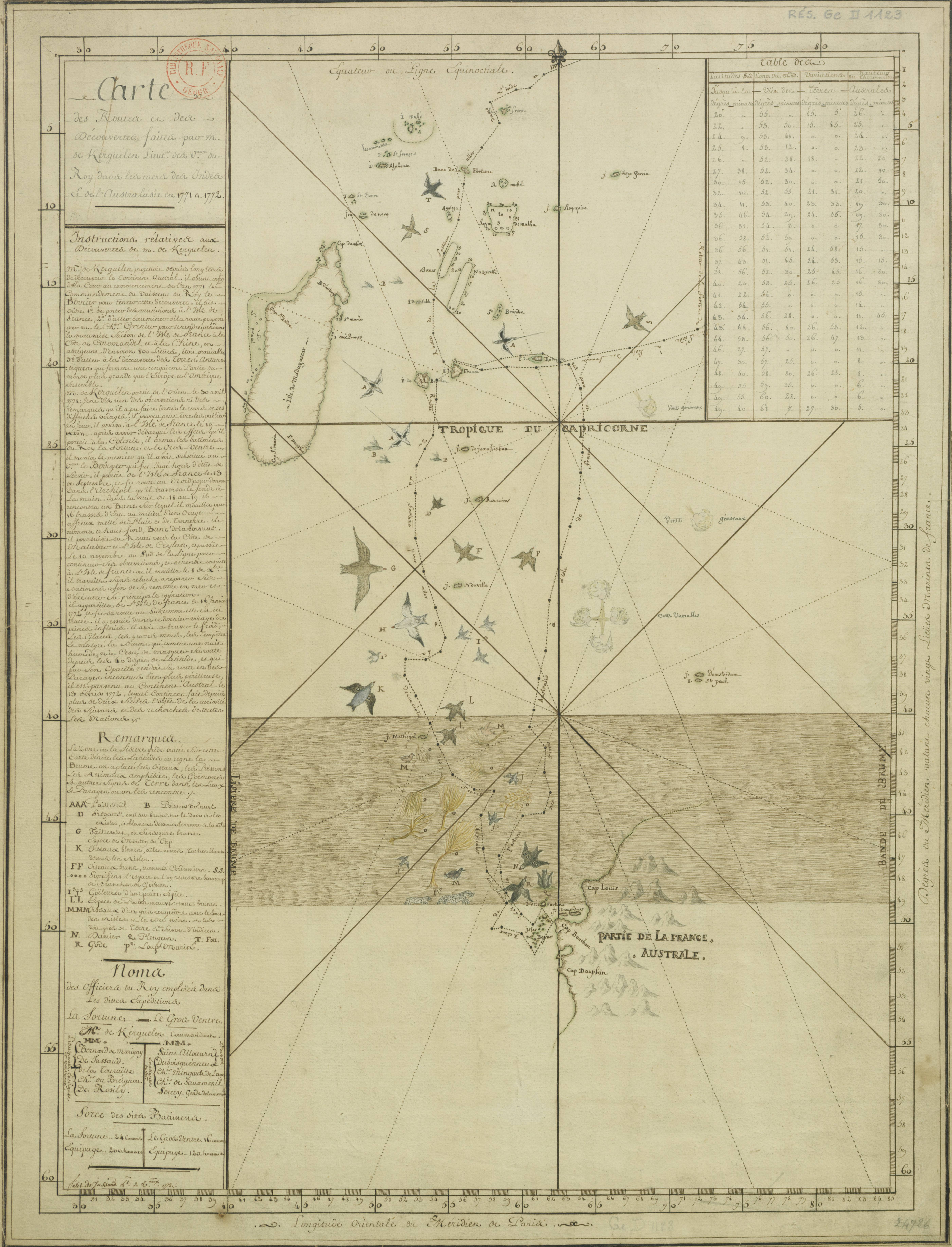 Map showing Kerguelens first expedition to the southern Indian Ocean, drawn 1772